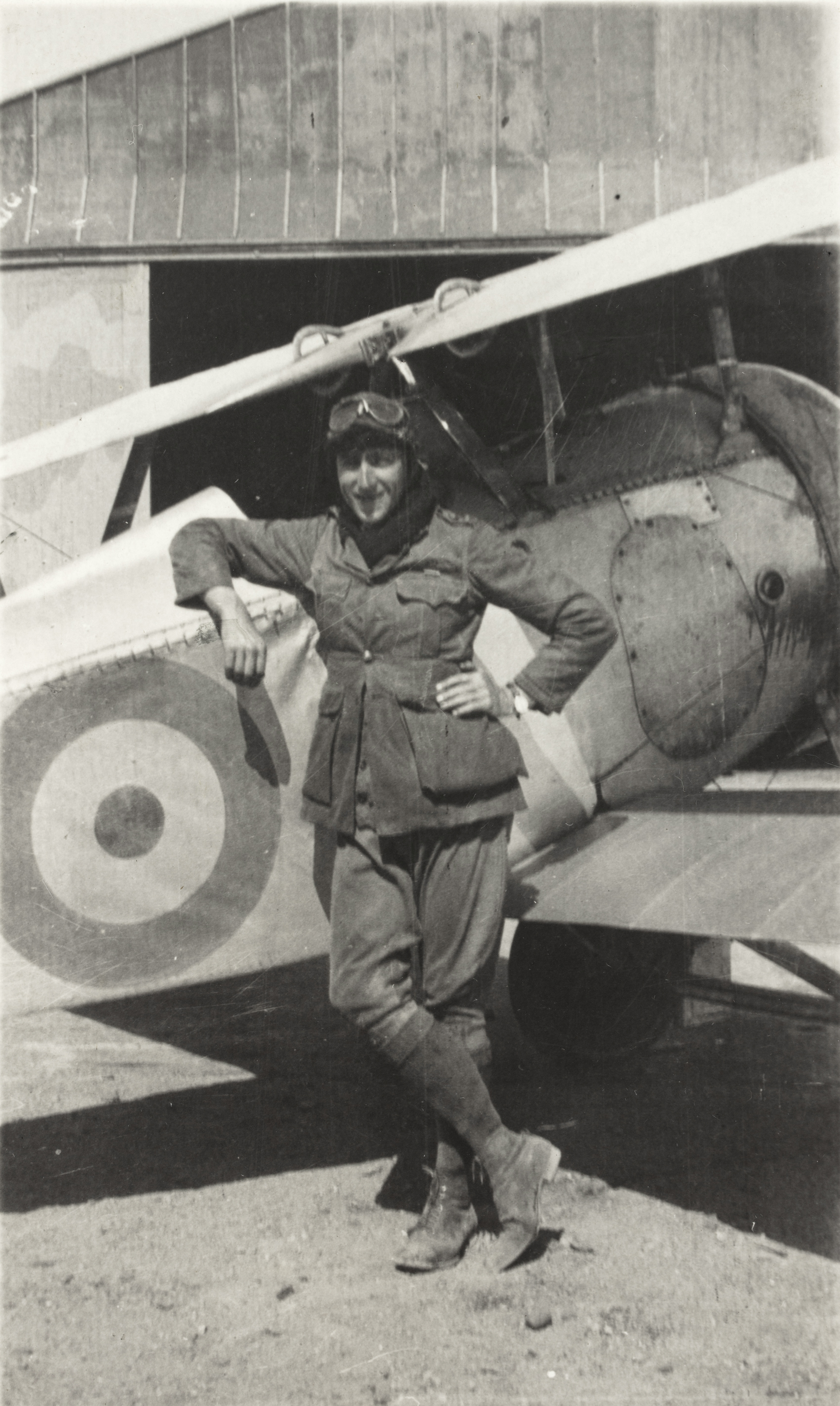 AWM caption : "ortrait of Lieutenant W Hudson Fysh of 1 Squadron, Australian Flying Corps, standing in front of his Nieuport Scout aircraft. While serving as an observer with 1 Squadron in the Middle East during the First World War, he earned the Distinguished Flying Cross; after the war he was allowed to qualify as a pilot (the period during which this photograph was taken). Lieutenant Fysh later went on to become the founder of Qantas and received his knighthood in 1953.